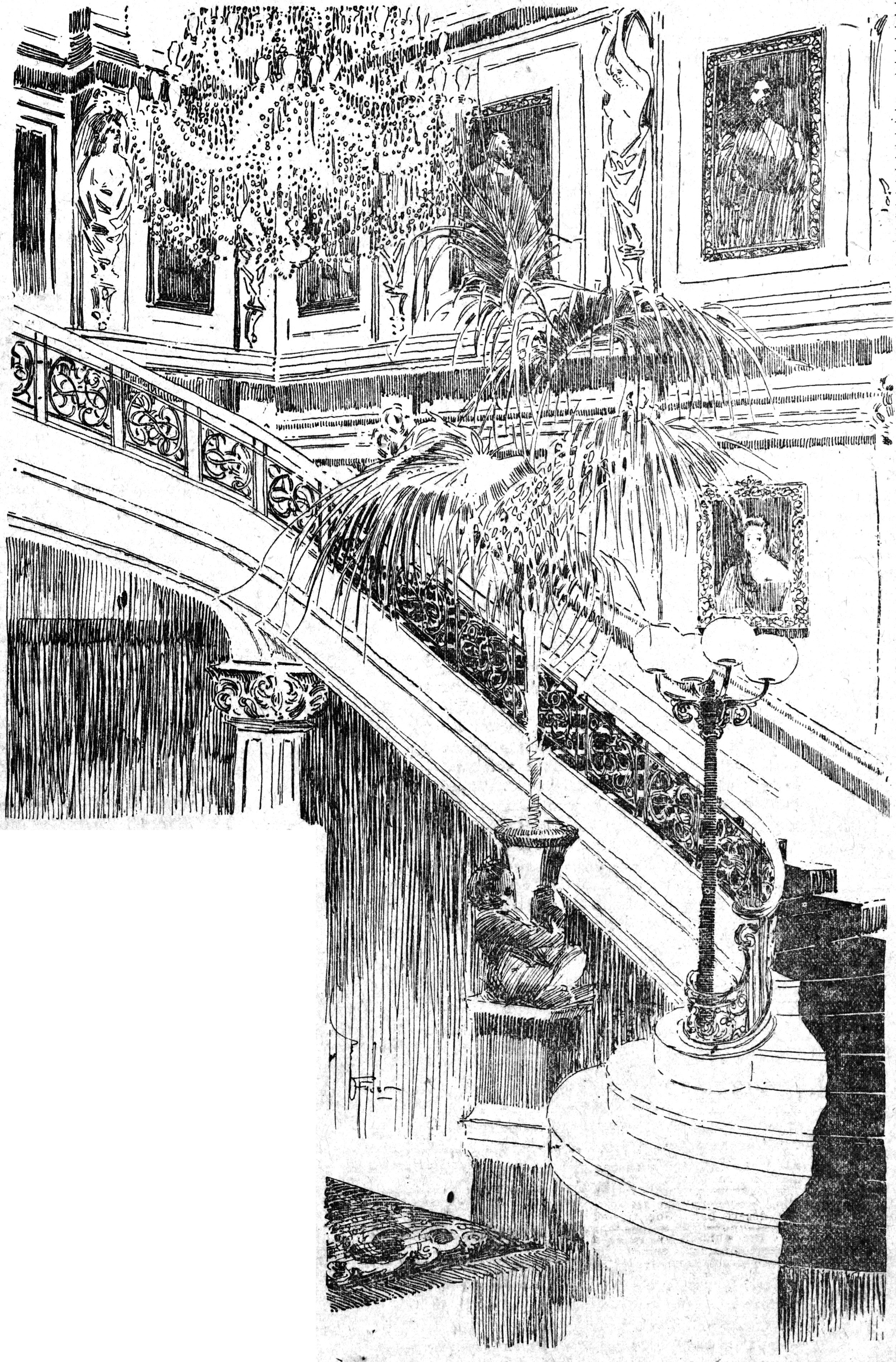 Staircase in Mrs. William B. Astor House.